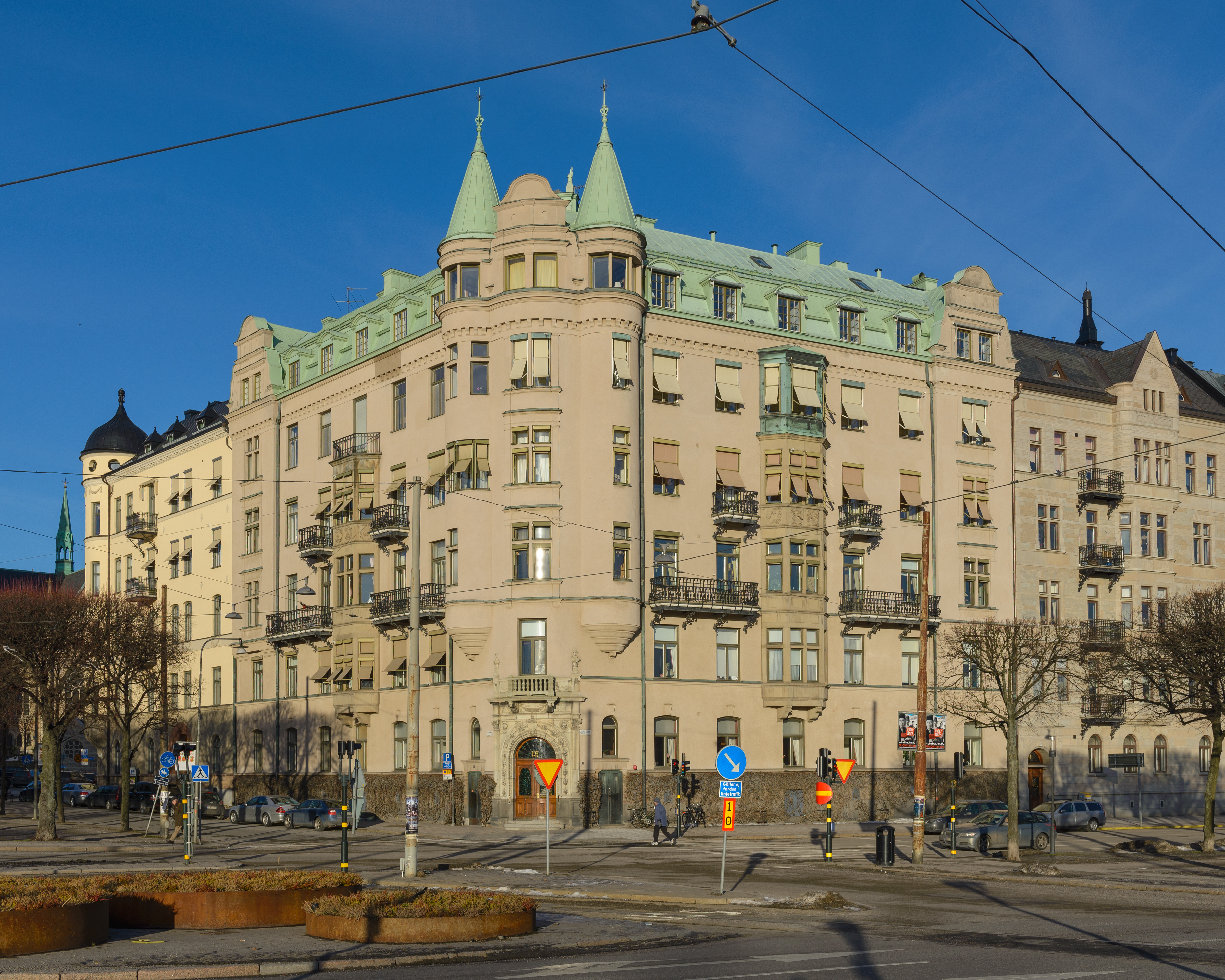 The intersection of Strandvägen and Narvavägen in Stockholm. All three buildings were designed by Sam Kjellberg and built in the 1890s.